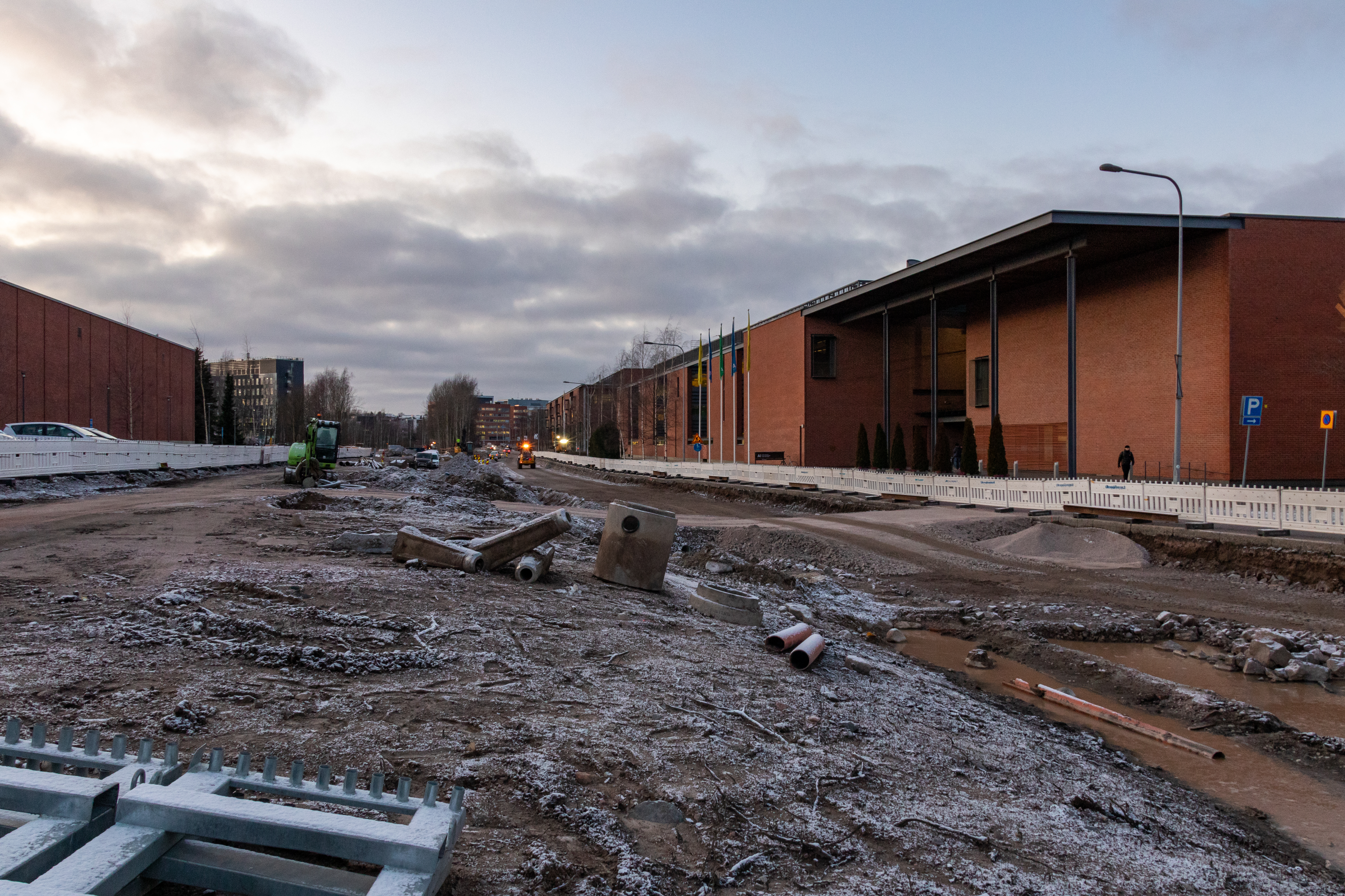 Raide-Jokeri construction site at Maarintie, Otaniemi, Espoo, Finland.